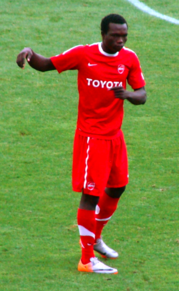 Vincent Aboubakar (Valenciennes FC)